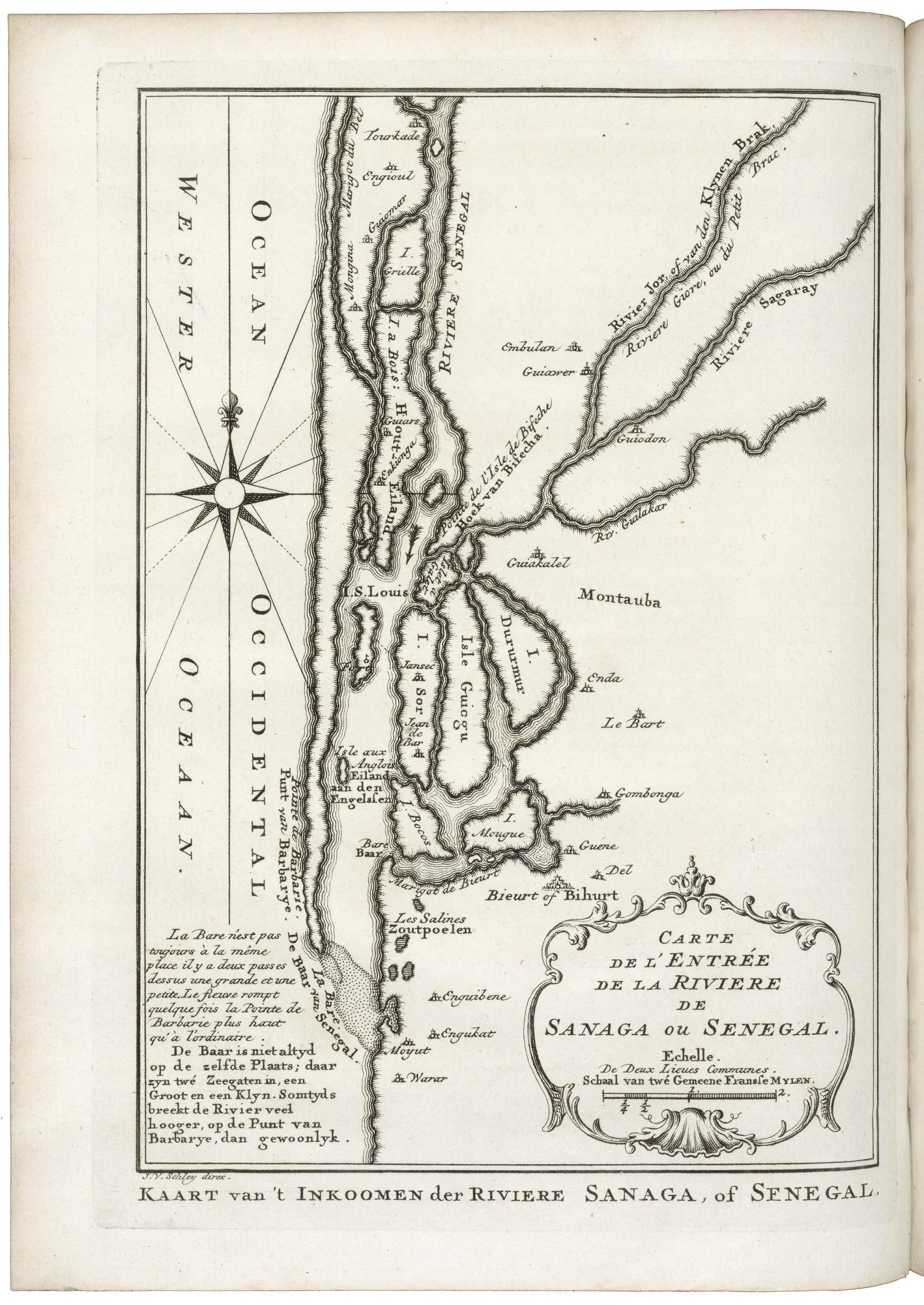 Map of the mouth of the Senegal river. Kaart van 't Inkoomen der Riviere Sanaga, of Senegal. Carte de l'Entrée de la Riviere de Sanaga ou Senegal.